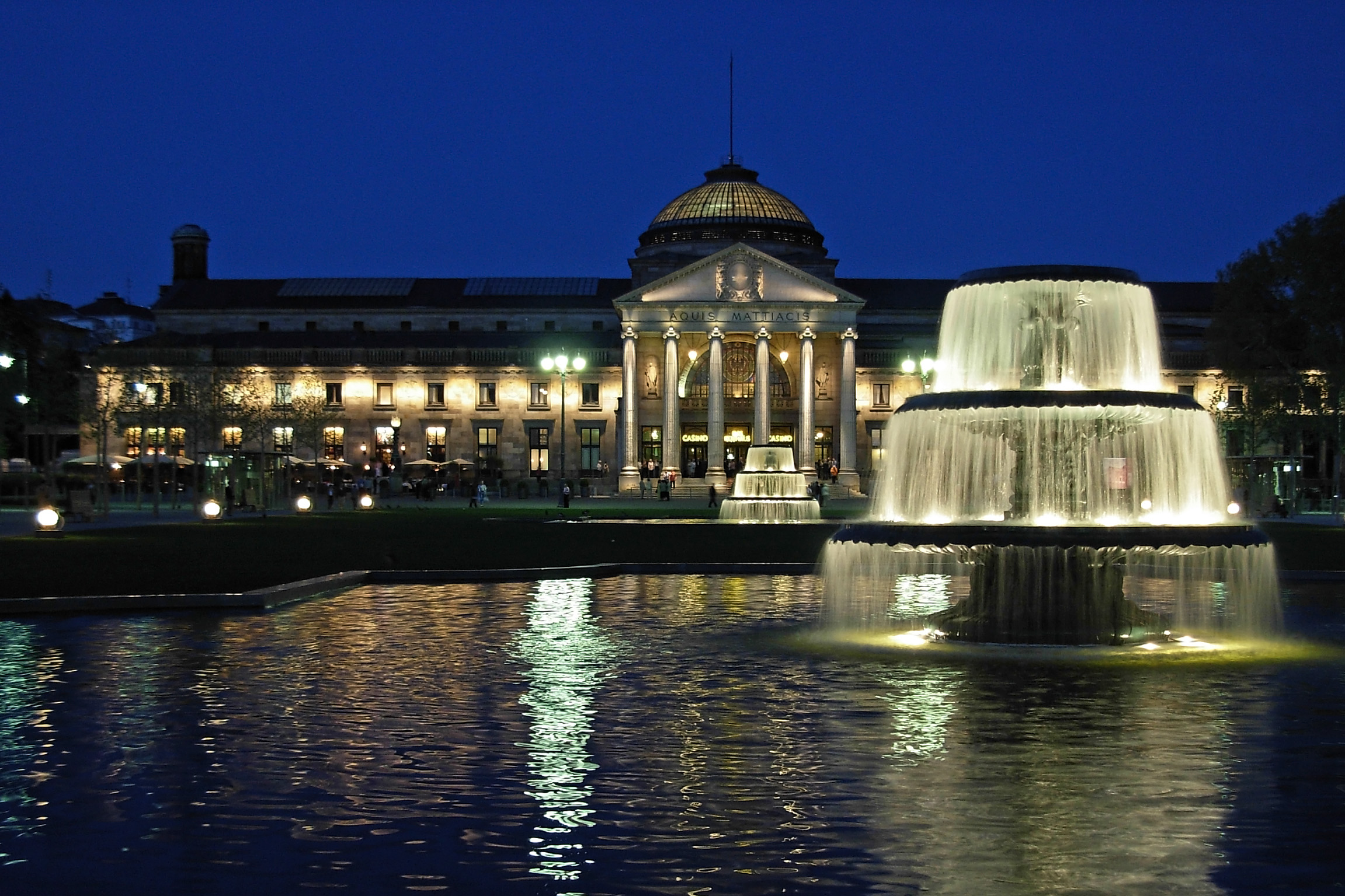 Kurhaus Wiesbaden (spa house) with two Fountains of the Bowling Green in the evening, Germany